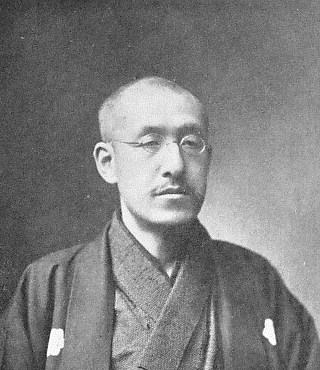 Naoaki Matsudaira